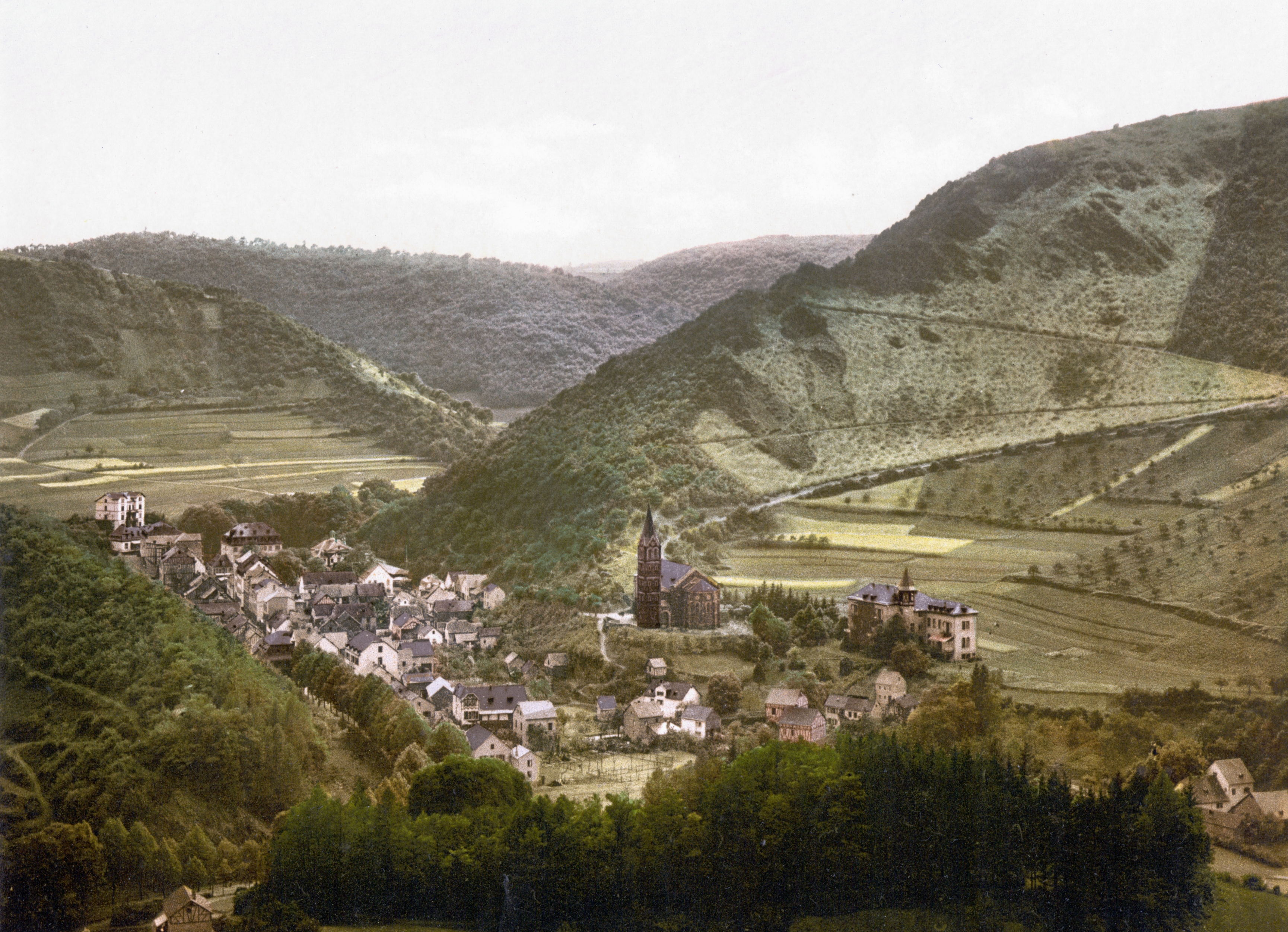 Bertrich Baths (i.e.,Bad Bertrich), Moselle valley, Germany